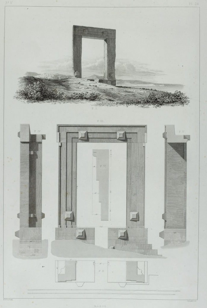 Naxos in 1829